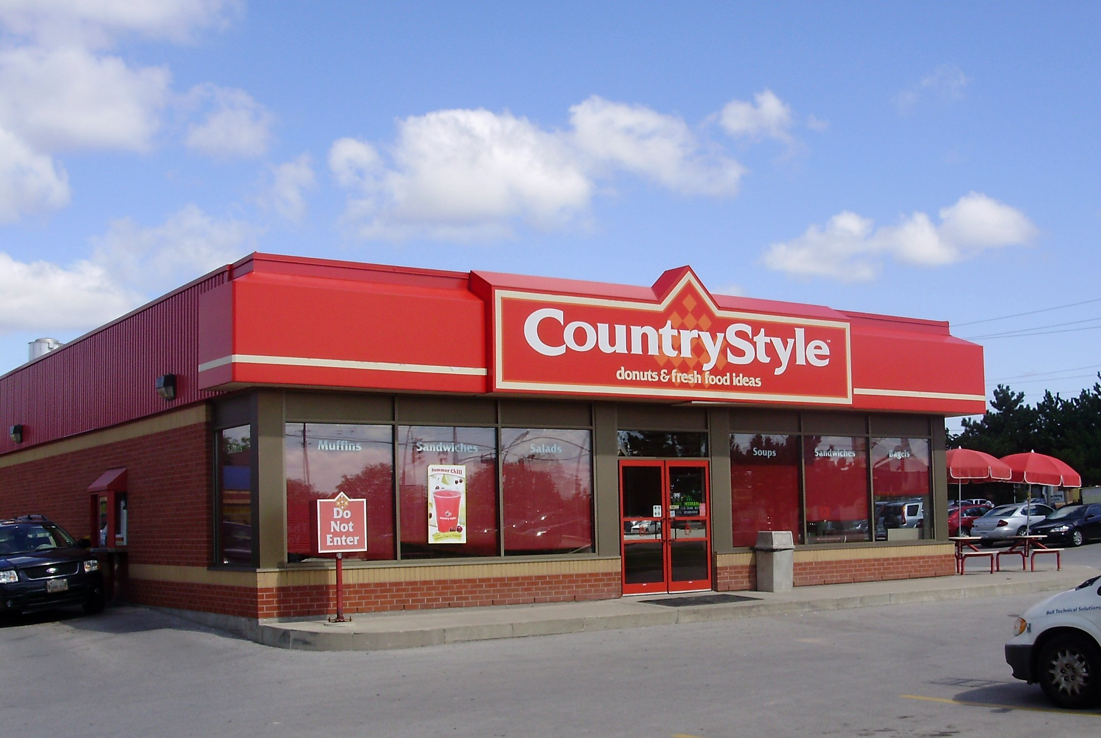 A Country Style coffee shop at the intersetion of Ontario Street South and Derry Road in Milton, Ontario, Canada.